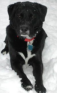 A tuxedo coloured mixed breed dog from Atlantic Canada. Taken in March/07